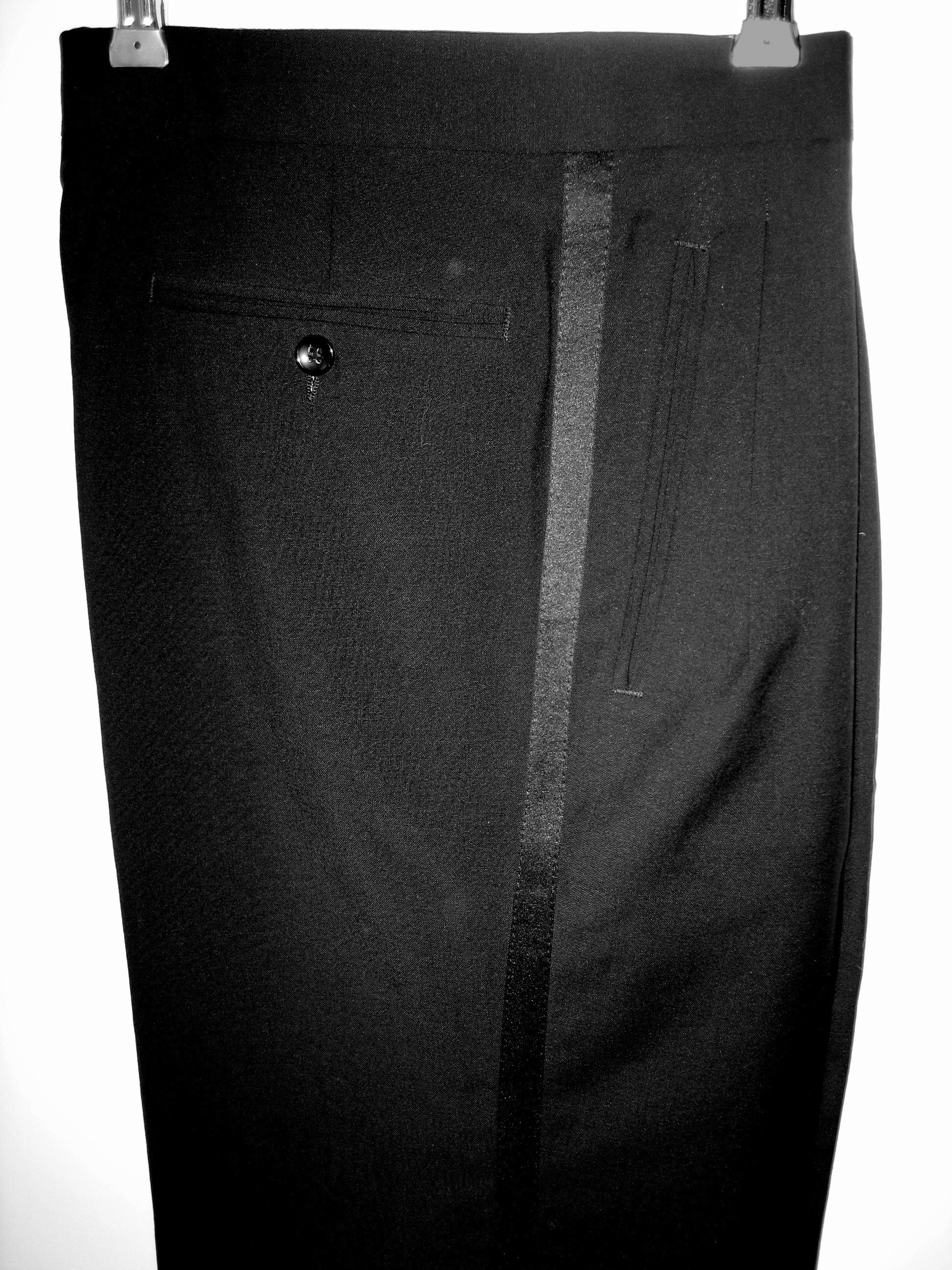 This picture shows black tie trousers with galons.